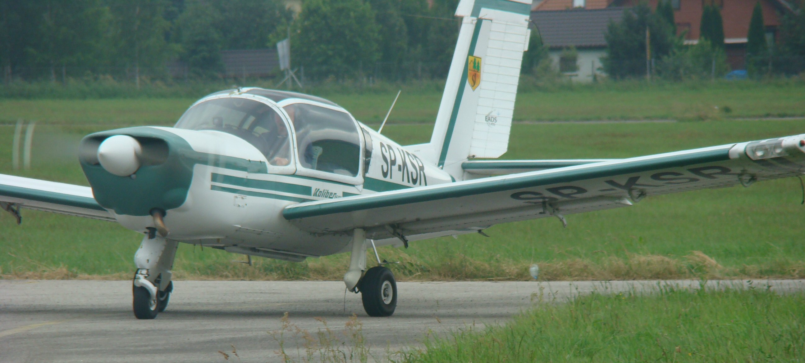 PZL-110 Koliber 160A, SP-KSR, Kielce-Masłów airfield